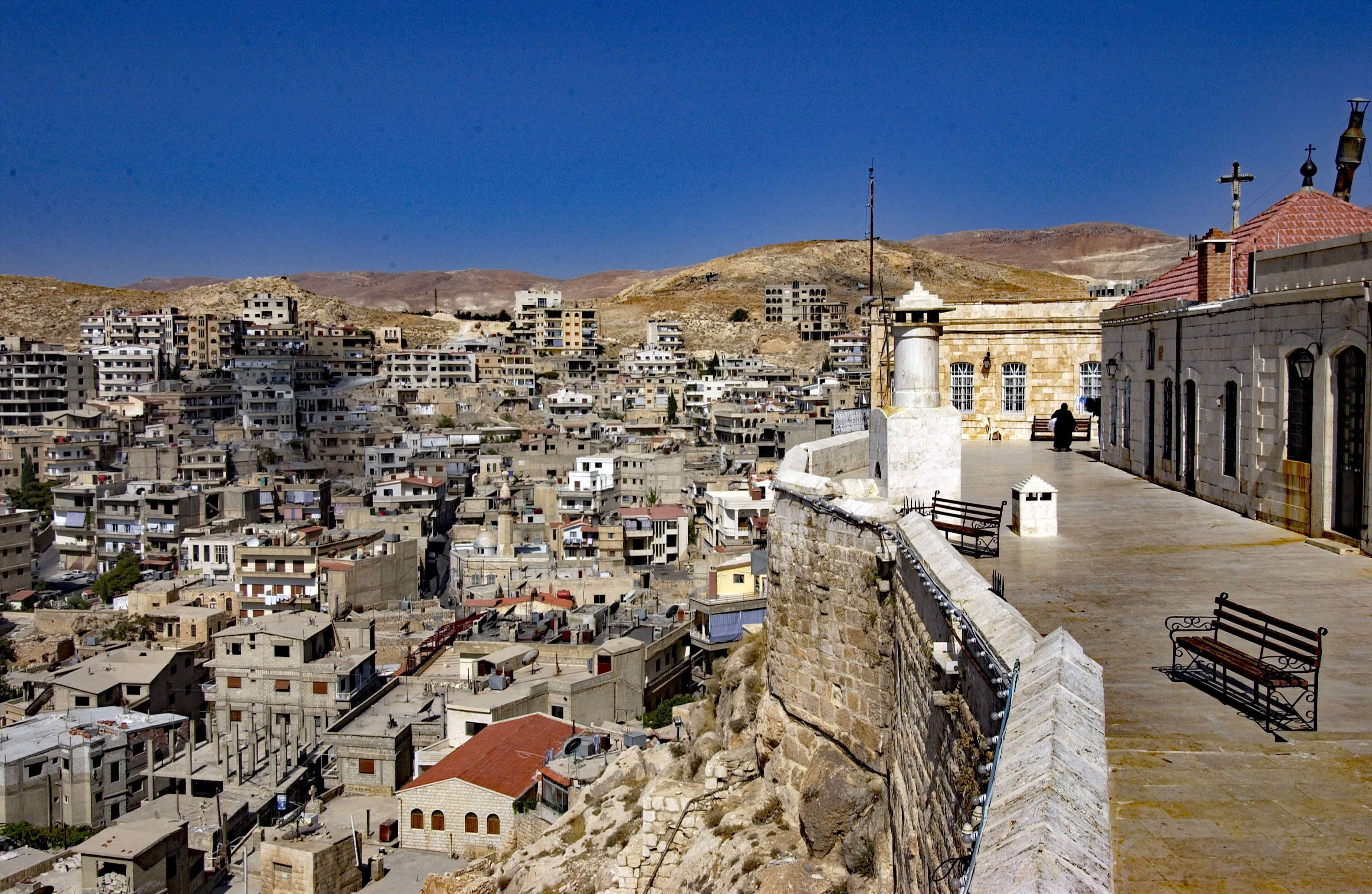 The Convent of Our Lady of Saidnaya